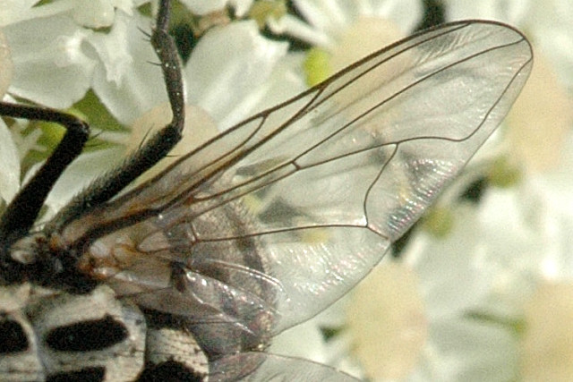 Picture taken in Commanster, Belgian High Ardennes . Species: Graphomya maculata, wing detail